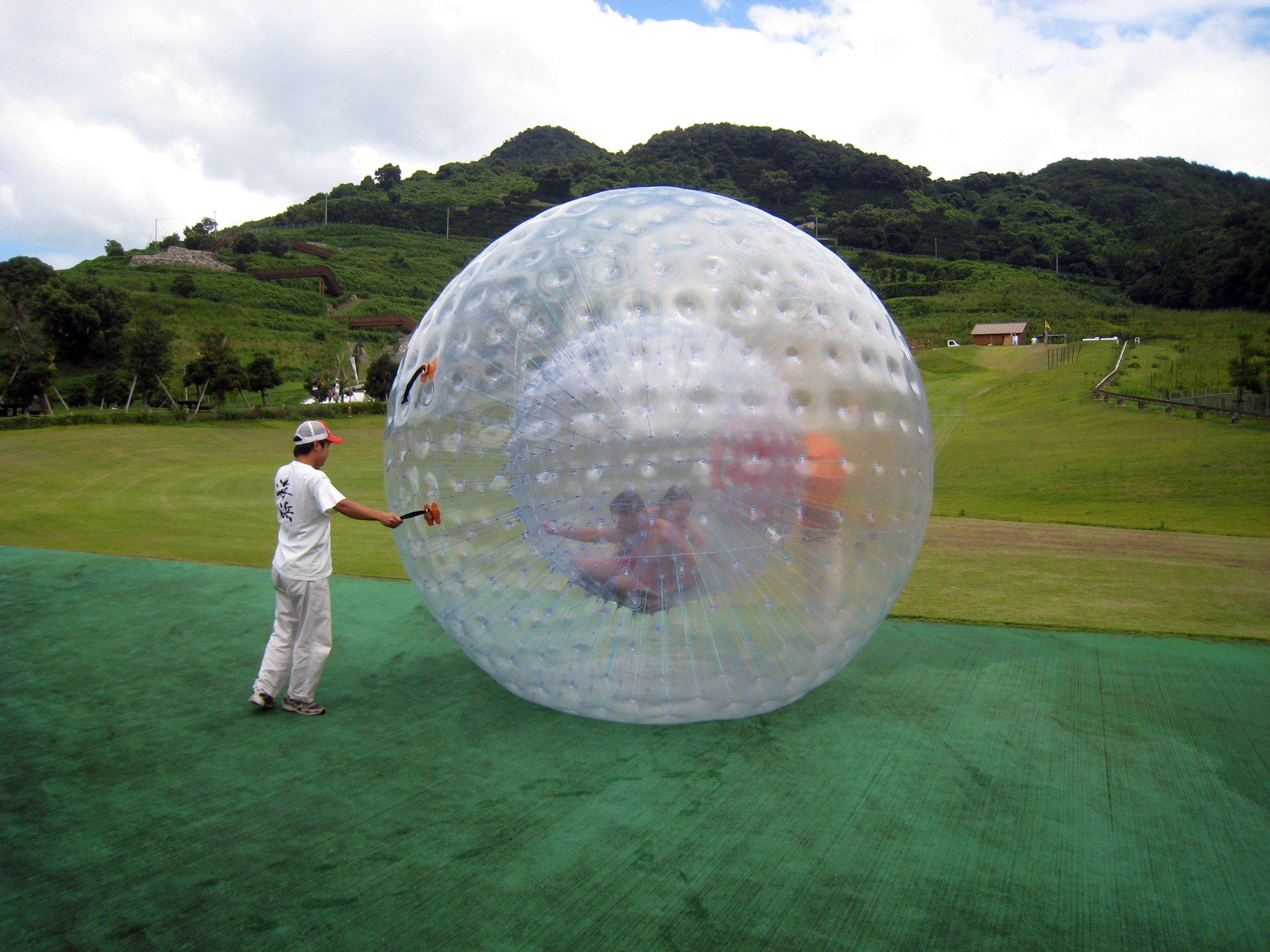 Sphereing, also known as globe-riding and Zorbing, is a recreational activity in which one, two or three people ride inside the inner wall of a plastic ball that rolls on the ground. To cushion the rider from bumps, there is about half a meter (about two feet) of air between the inner and outer walls of the ball. Some balls have straps to hold the rider(s) in place and some leave the rider(s) free so that they can influence the ball's movement or be tossed around freely by the ball's rolling and bouncing, optionally with a sloshing amount of water inside. People concerned about their balance, safety or other needs may enjoy the activity on ground that is either level or only slightly rolling. There are videos of rides at the Zorb website and at YouTube.